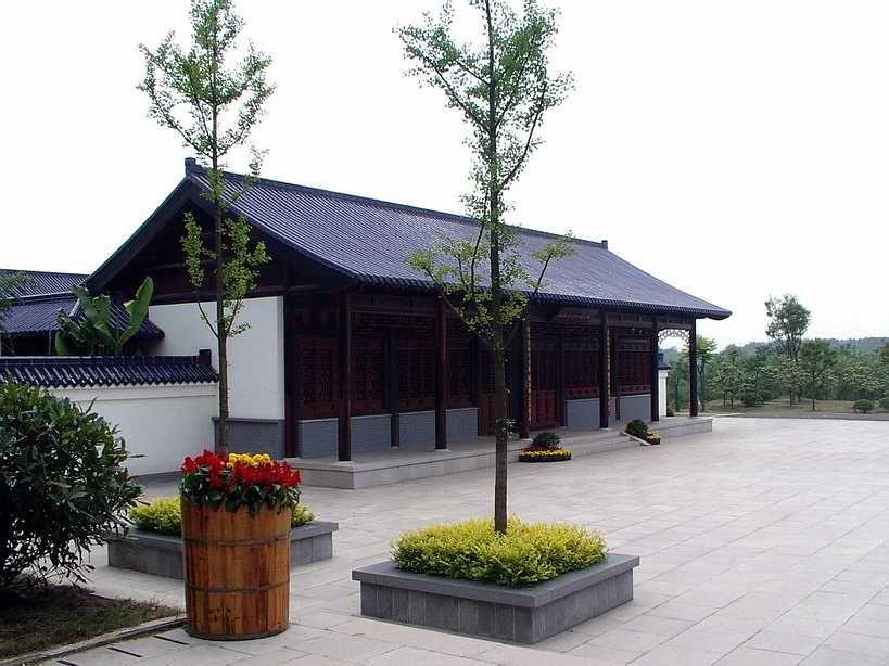 Photo taken in May 2007 by Peter Pang, a direct descendant of Wenming, Zheng He's elder brother. Peter Pang has given his permission to use this photo in an email sent to me dated 1st June, 2007: ". . . by all means use them and send them to the website." John Hill 23:18, 1 June 2007 (UTC)